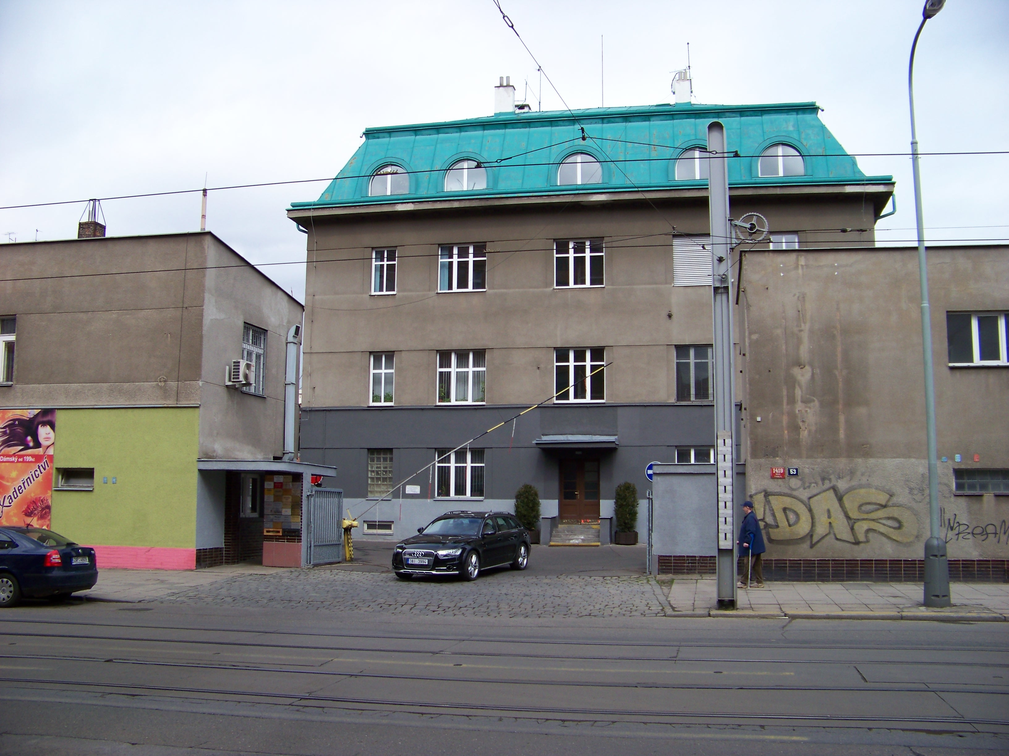 Prague-Nusle, the Czech Republic. Nuselská 1419/53, creamery works.